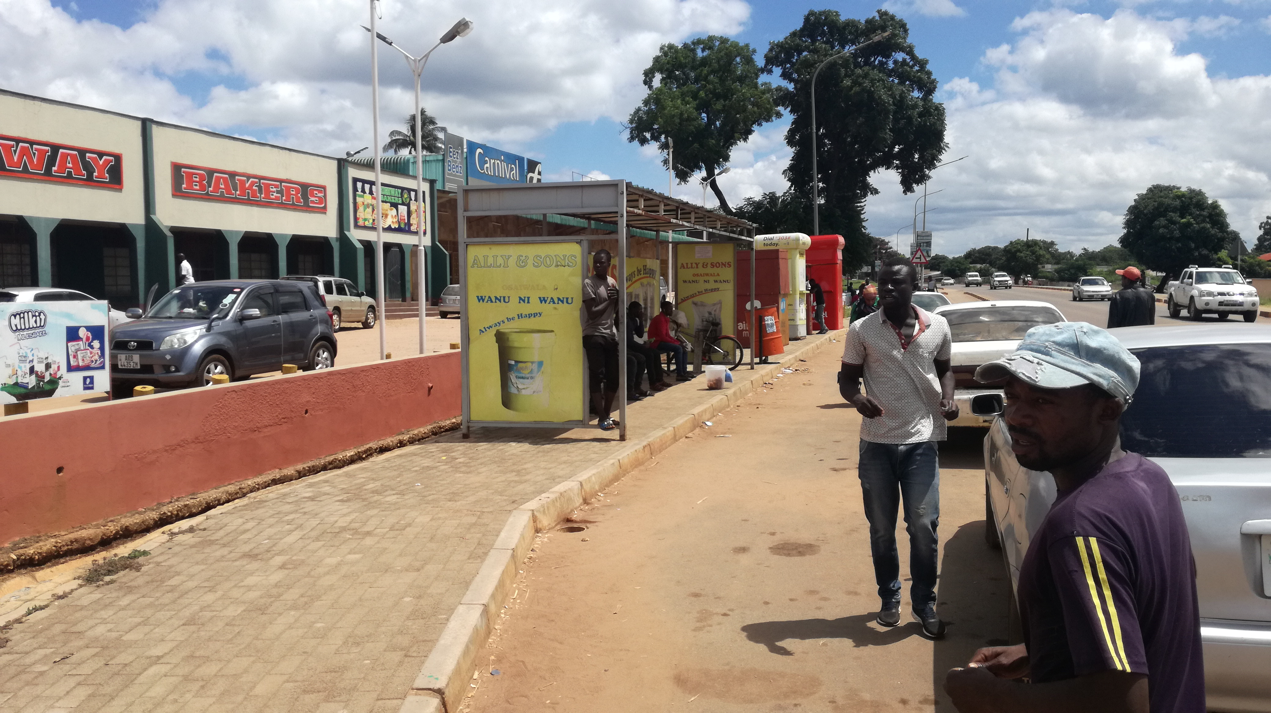 A bus and taxi stop in Chipata, Eastern Province, Zambia This is an image with the theme "Africa on the Move or Transport" from: Zambia